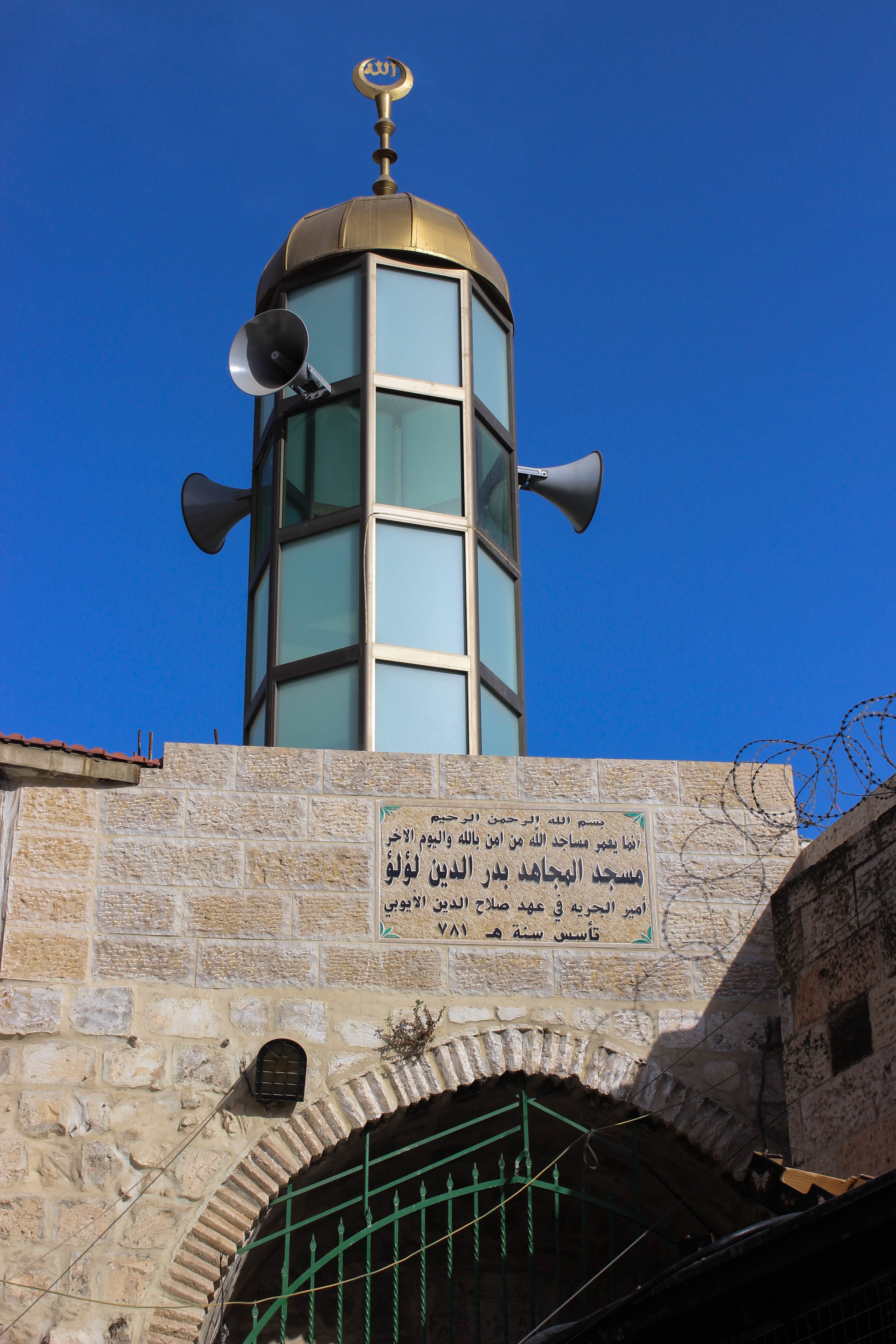 Old Jerusalem, Muslim Quarter, Sheikh Lulu ascent (entering Damascus Gate, you see it on your left), Mosque Emir Badr al-Din Lulu.